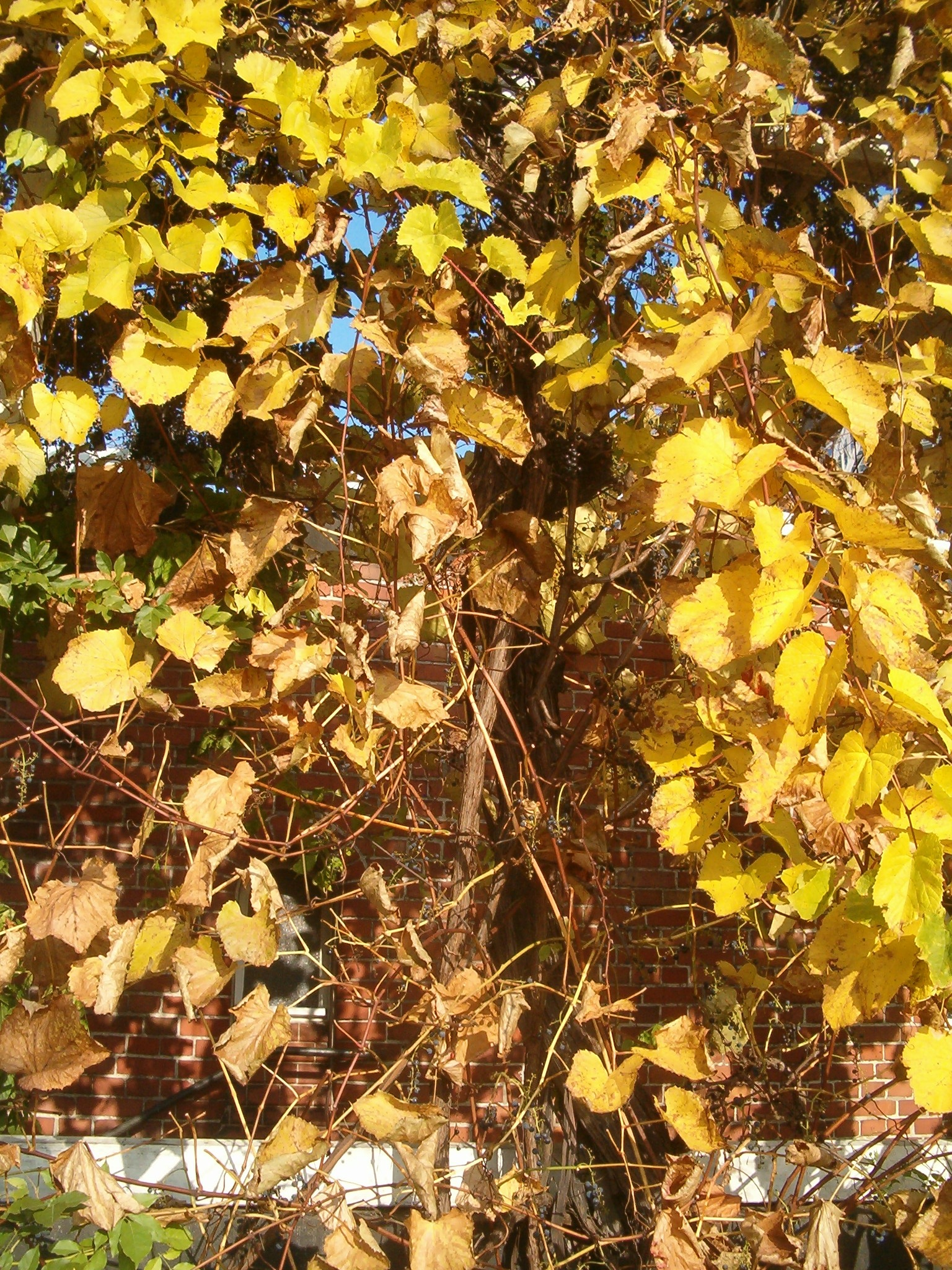 Species Vitis amurensis in autumn in the Botanical Gardens Berlin Dahlem